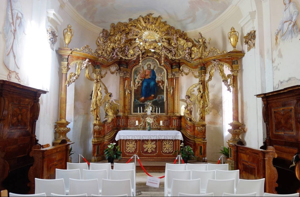 Töpperkapelle Hochaltar